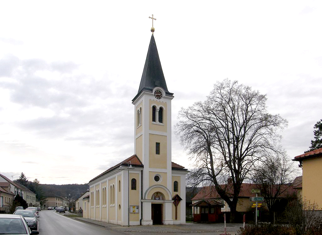 Kath. Pfarrkirche Mariä Heimsuchung in Oberkreuzstetten